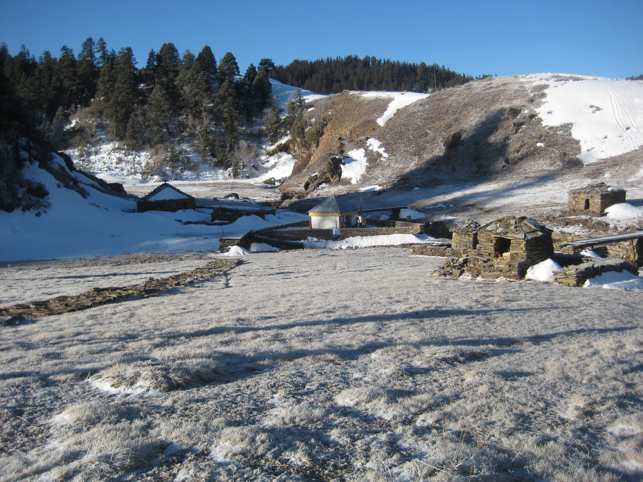 snow falling at Khaptad.